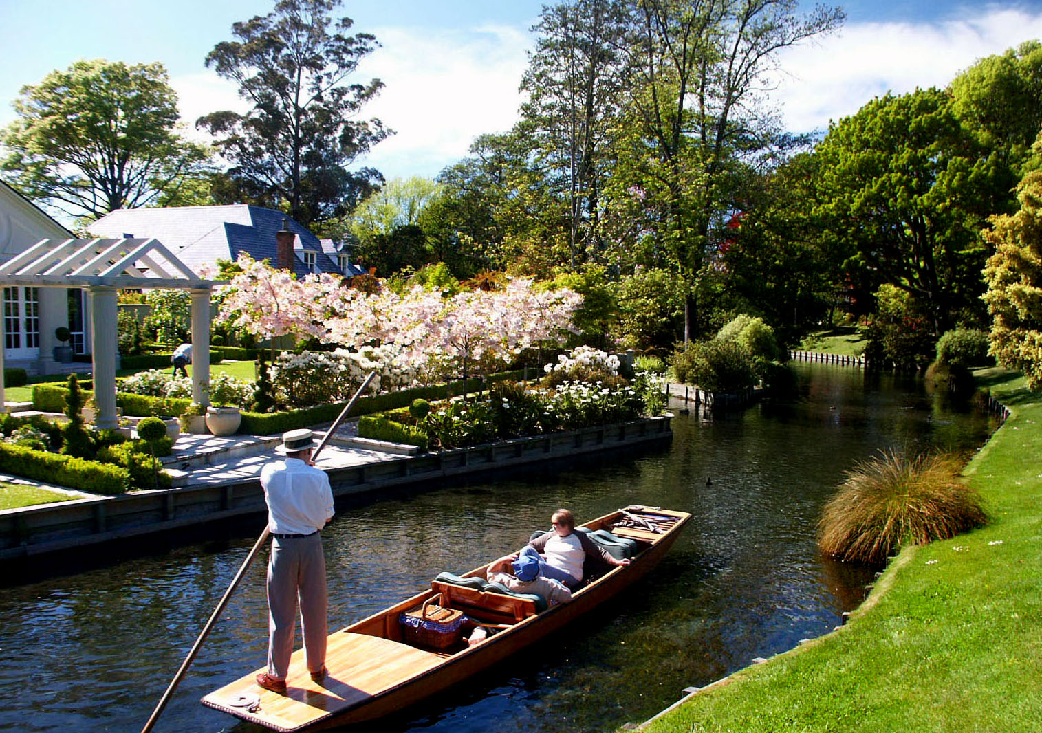 How English is this...Chistchurch New Zealand. There’s nothing more romantic than a punt down the tranquil River Avon beside historic Mona Vale. Watch the world go by as our boatmen glide you down a simply beautiful river, next to banks of considerable landscaping and natural beauty covered in trees and flowers